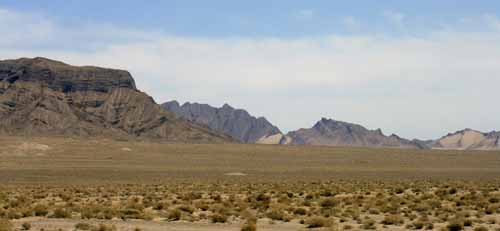 Typical desert steppe landscape on the northern edge of the Qaidam basin